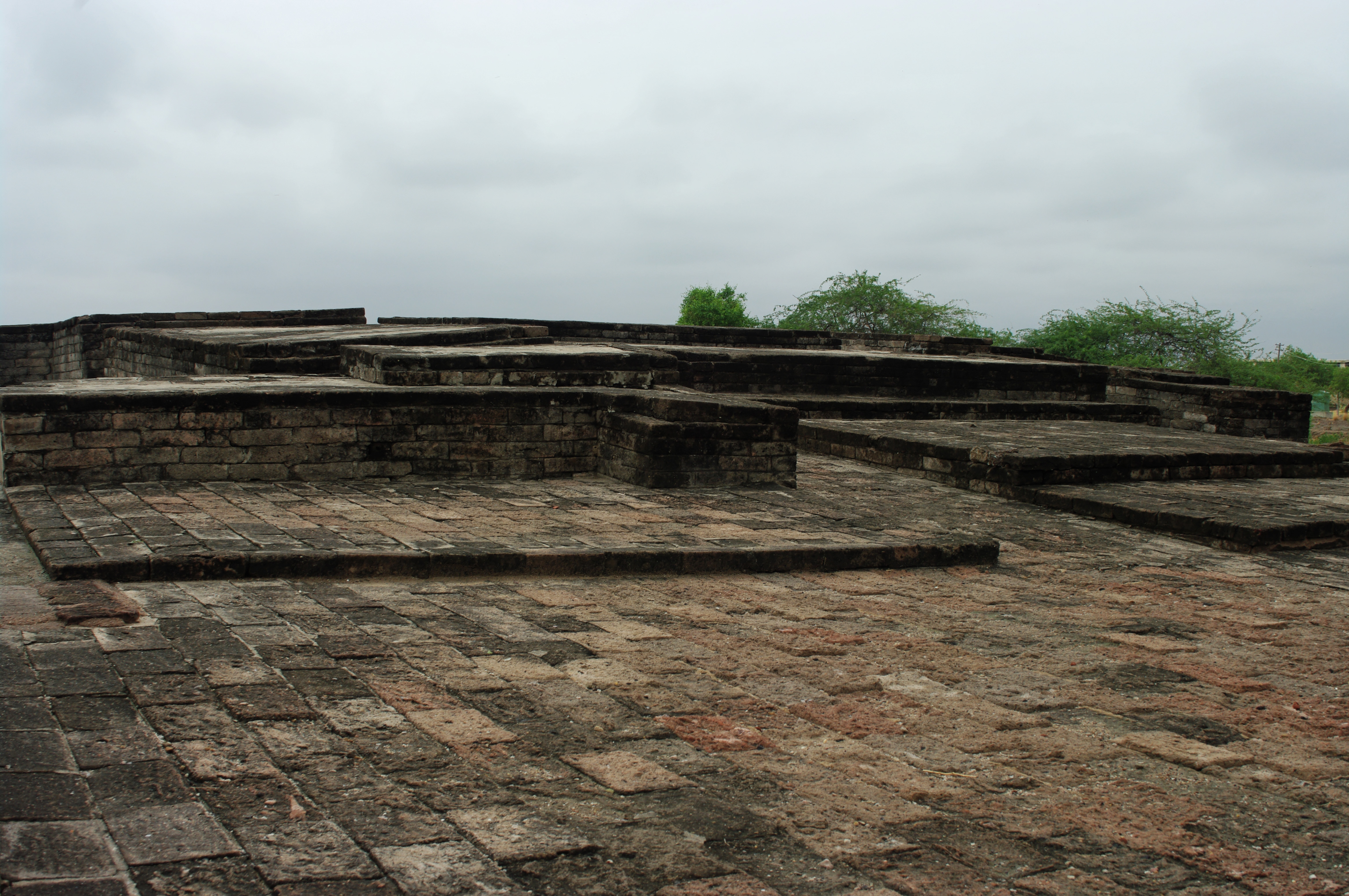 Lothal - Gujarat, India Archaeological site at Lothal, Gujarat, India